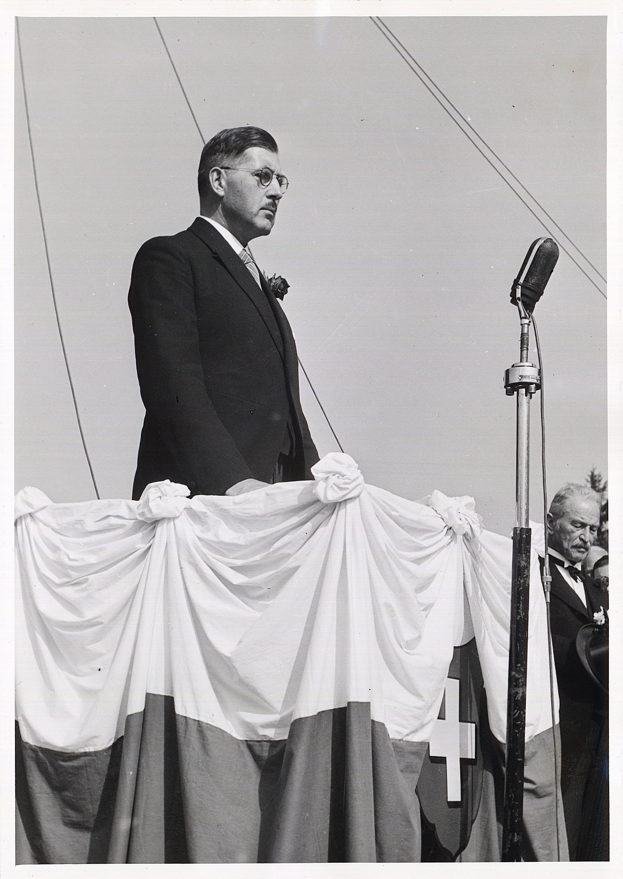 Member of the Swiss Federal Council Karl Kobelt holding a speech at the opening of the Fürstenland bridge in St. Gallen, 1941